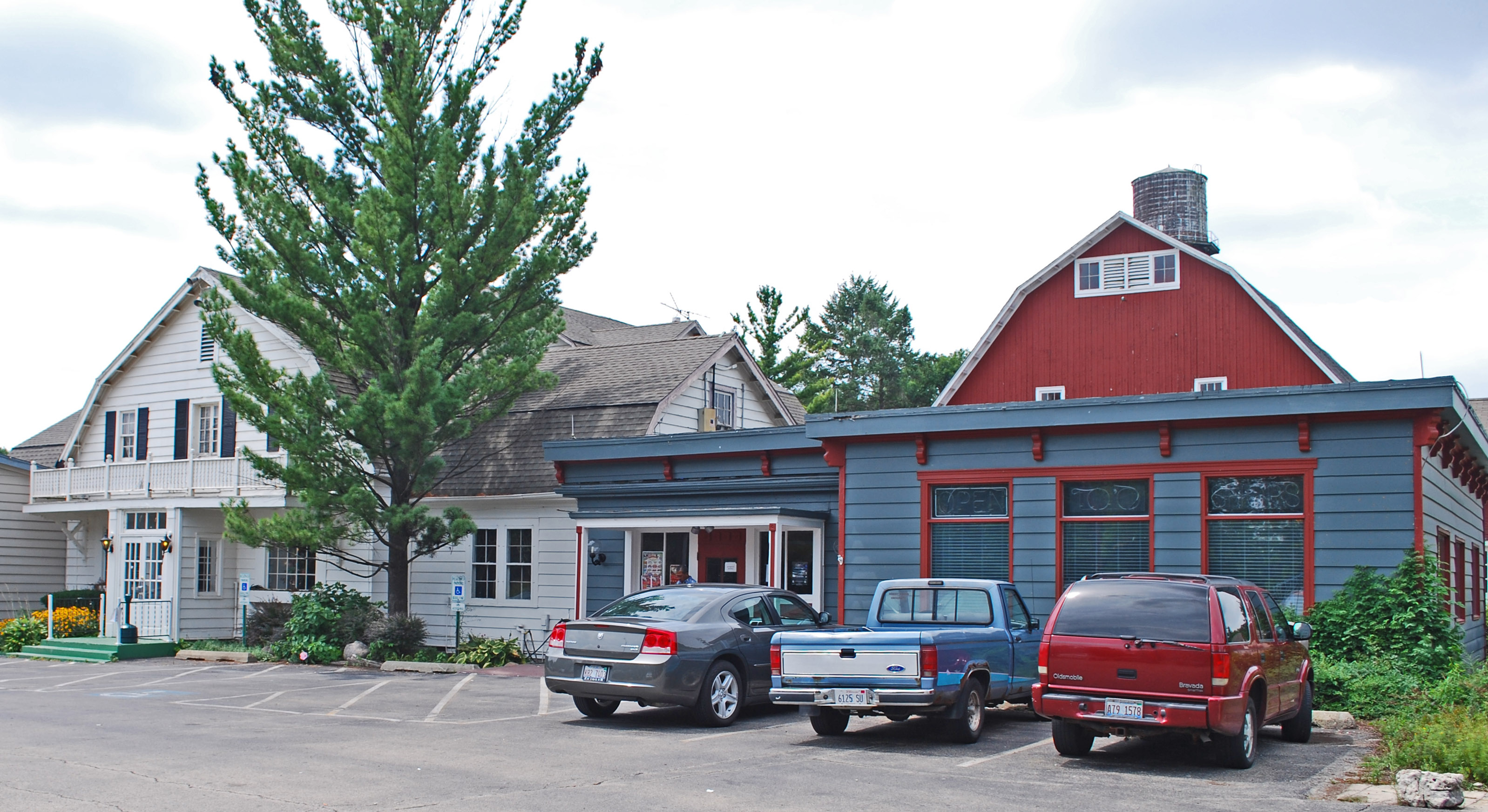 Milk Pail Restaurant Complex, Dundee Township, Kane County IL